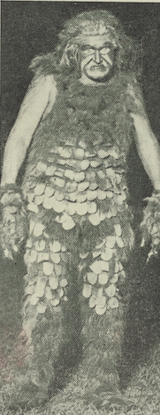 An actor dressed as a monstrous representation of the Shakespearean character Caliban